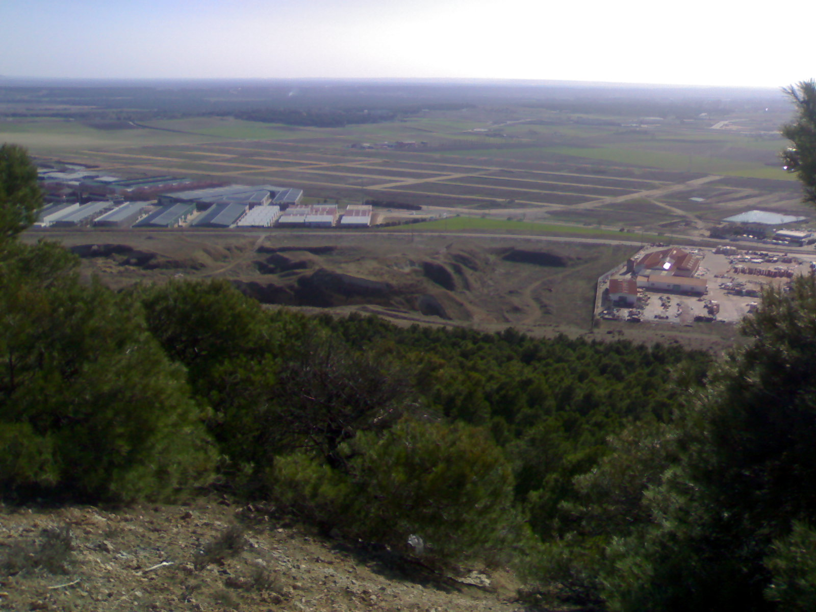 Ampliacion la mora la cisterniga